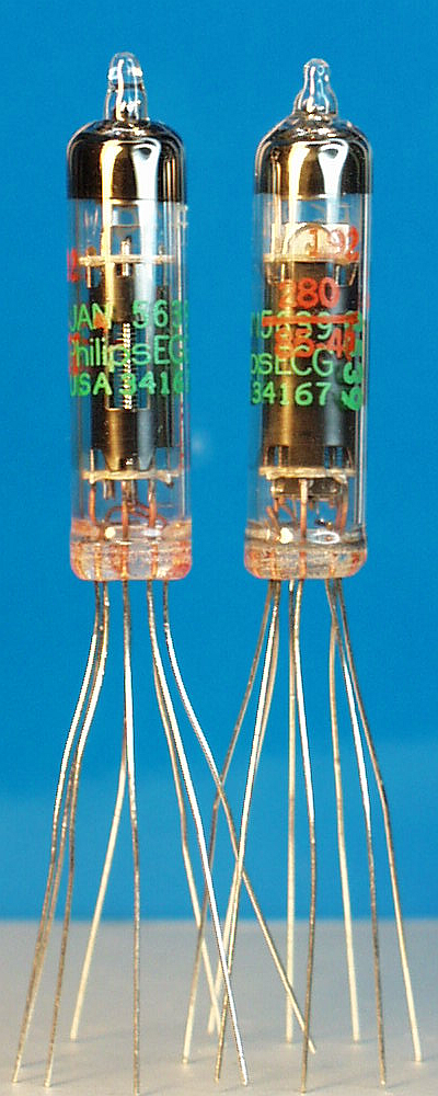 A pair of type 5639 subminiature pentodes